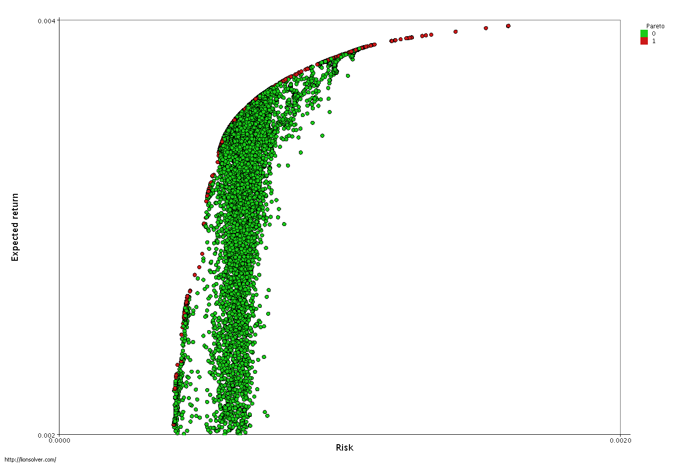 The problem consists of selecting a set of assets and choosing the share of investment dedicated to each asset, in order to follow the investor's desires regarding return and risk. The classic and seminal approach to this problem is due to Markowitz (1952). The plot shows the results of optimizing 225 stocks by using the LIONsolver software, Pareto-optimal solutions are red. ( created with )